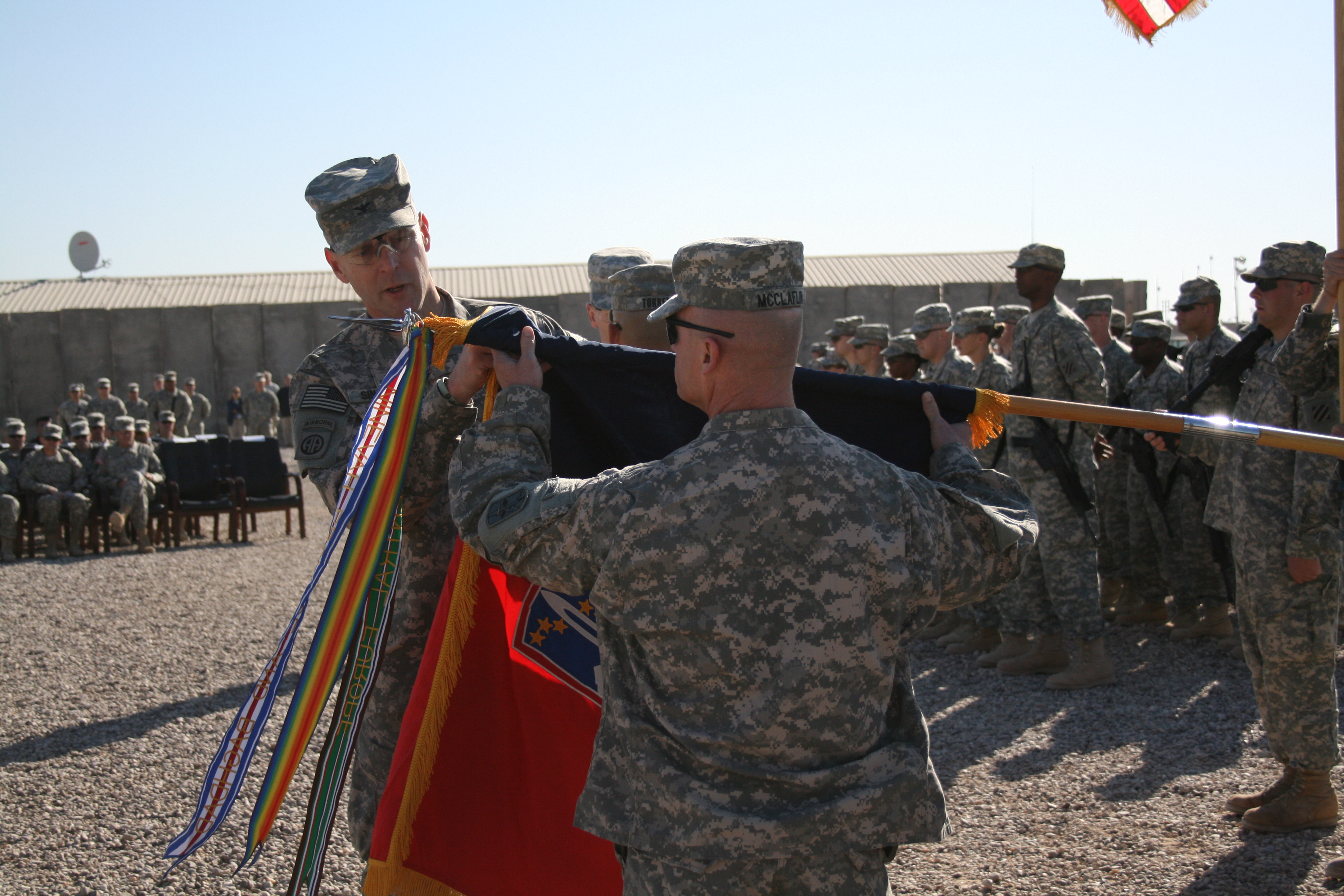 The 4th Brigade Combat Team, 3rd Infantry Division transferred authority to the 172nd Infantry Brigade Combat Team during a ceremony at Forward Operating Base Kalsu Dec. 18. The photo shows Colonel Jeffrey A. Sinclair and Command Sergeant Major Steven W. McClaflin uncasing the 172nd Infantry Brigade’s colors.